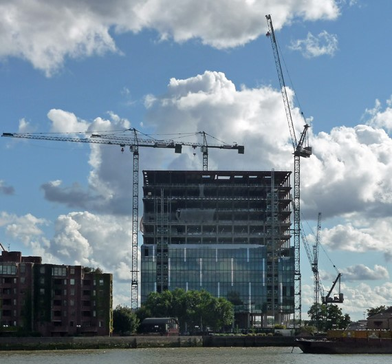 During construction of the new US Embassy, Nine Elms Lane, London